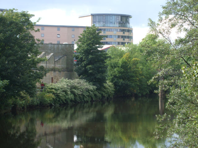 Shipley tax office A major Inland Revenue site.